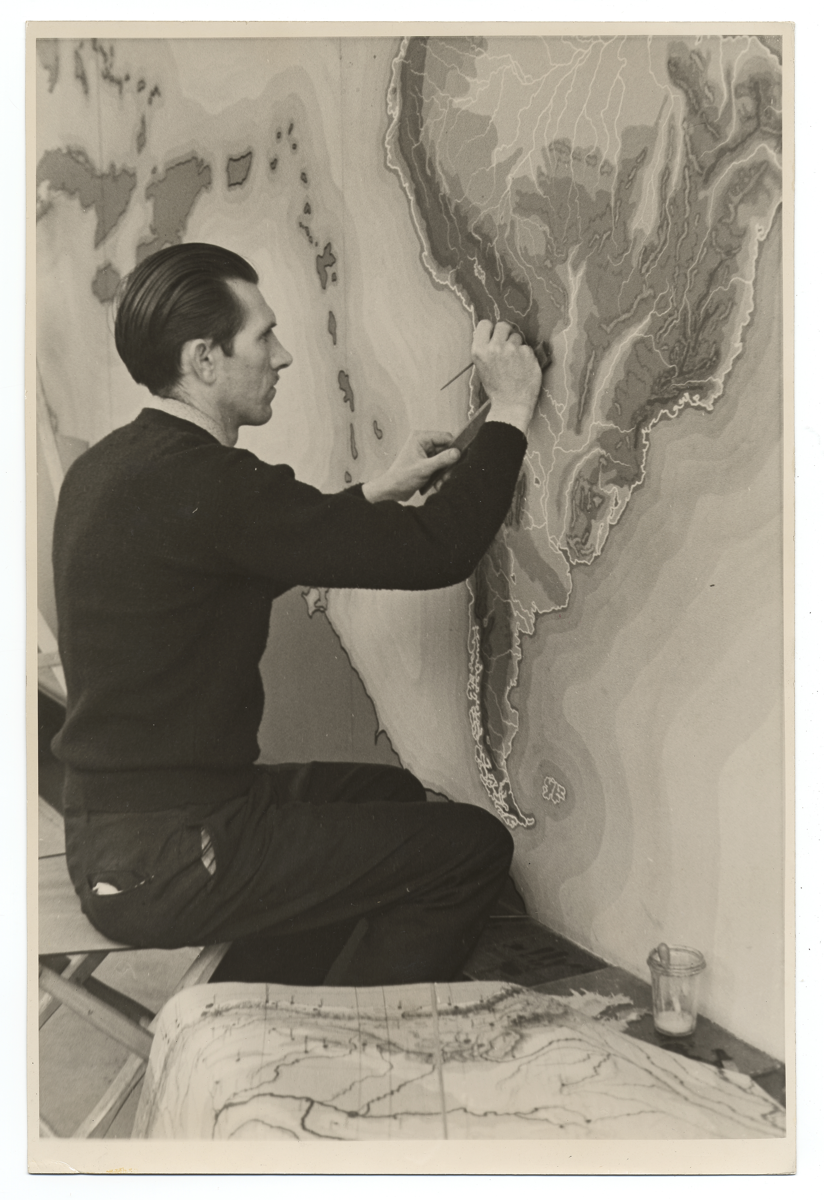 Maccoy working on a mural for the WPA Federal Art Project.Identification on verso (handwritten and typed): Please Credit Photograph to: W.P.A. Federal Art Project; 6 East 39th St., New York, N.Y. Negative No.: LS, 2C; Title: Map of Aboriginal Amer. Culture - Artist at Work; Artist: Guy Maccoy; Brooklyn Museum. Identification on accompanying label (typewritten): Artist (Mr. Maccoy) at work on mural at: Brooklyn Museum, Eastern Parkway, Brooklyn, New York, designed under the direction of the Federal Art Project, New York City, W.P.A. Location: First Floor, Persian Hall; Title: Map of Aboriginal American Cultures; Artist: Guy Maccoy; Medium: tempera on gesso.